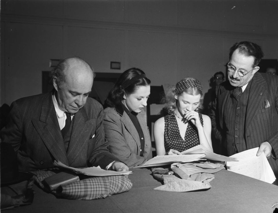 Four actors from the soap opera "The Secret of Dr. Morhanges" Henry Deyglun on CBC station (Radio-Canada) in Montreal. Fred Barry, Janine Sutto, Muriel Guilbault and George Alexander repeat the scenario.